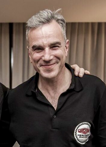 Daniel Day-Lewis at the 2013 Jaguar Mille Miglia event